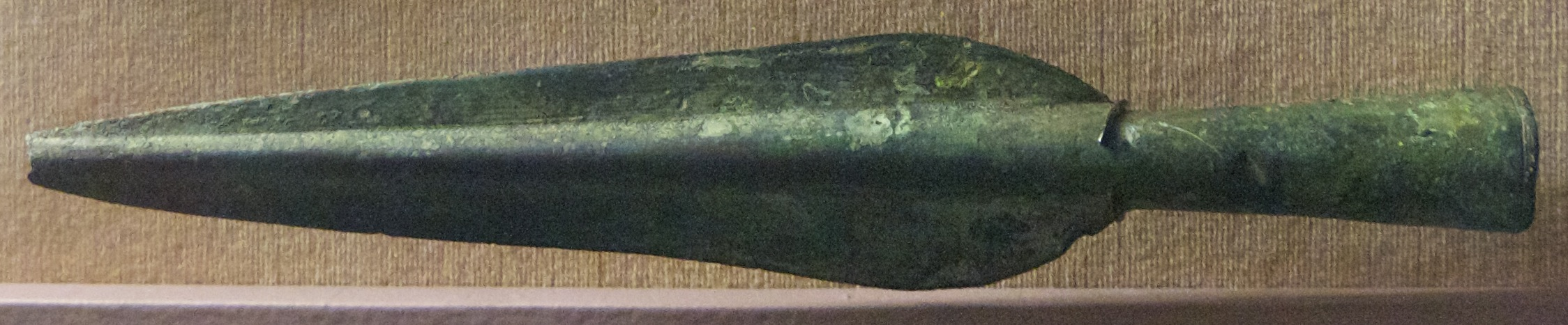 Egyptian bronze spear from Banha, 2nd millennium BC, Musee des Antiquites Nationales, St Germain en Laye